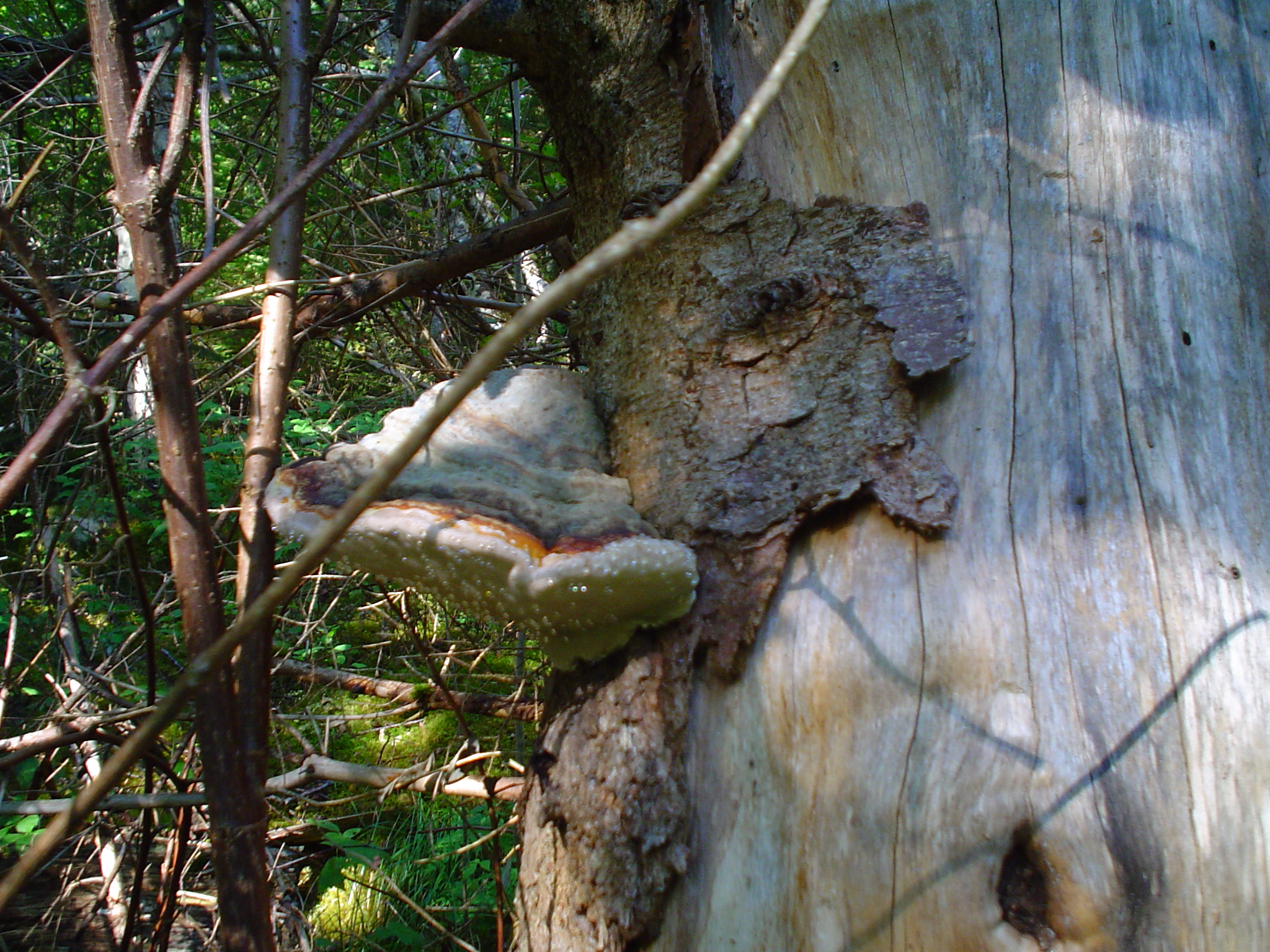 A polypore.